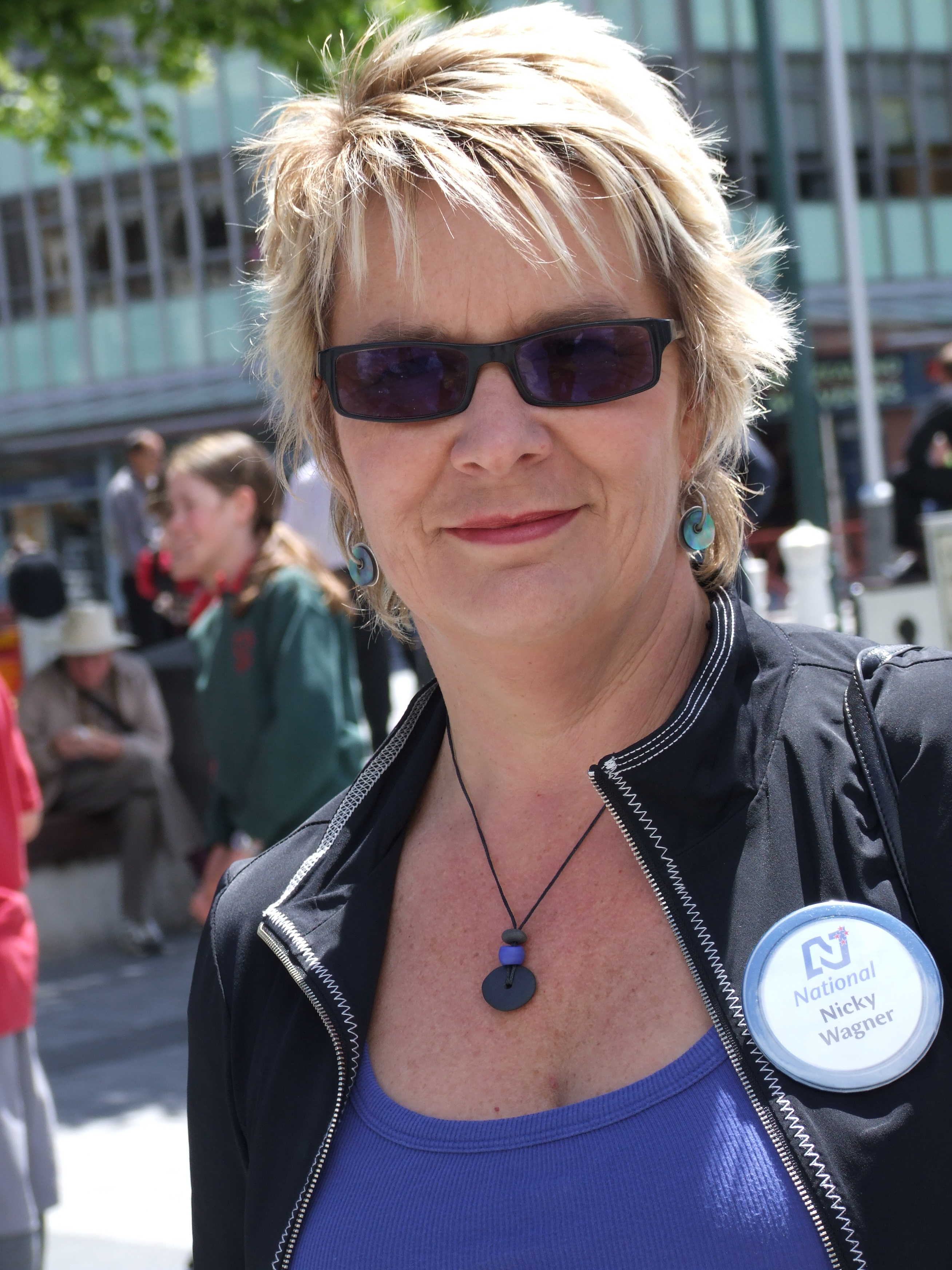 From a Christchurch march against the Electoral Finance Bill. This is Nicky Wagner from the National Party.